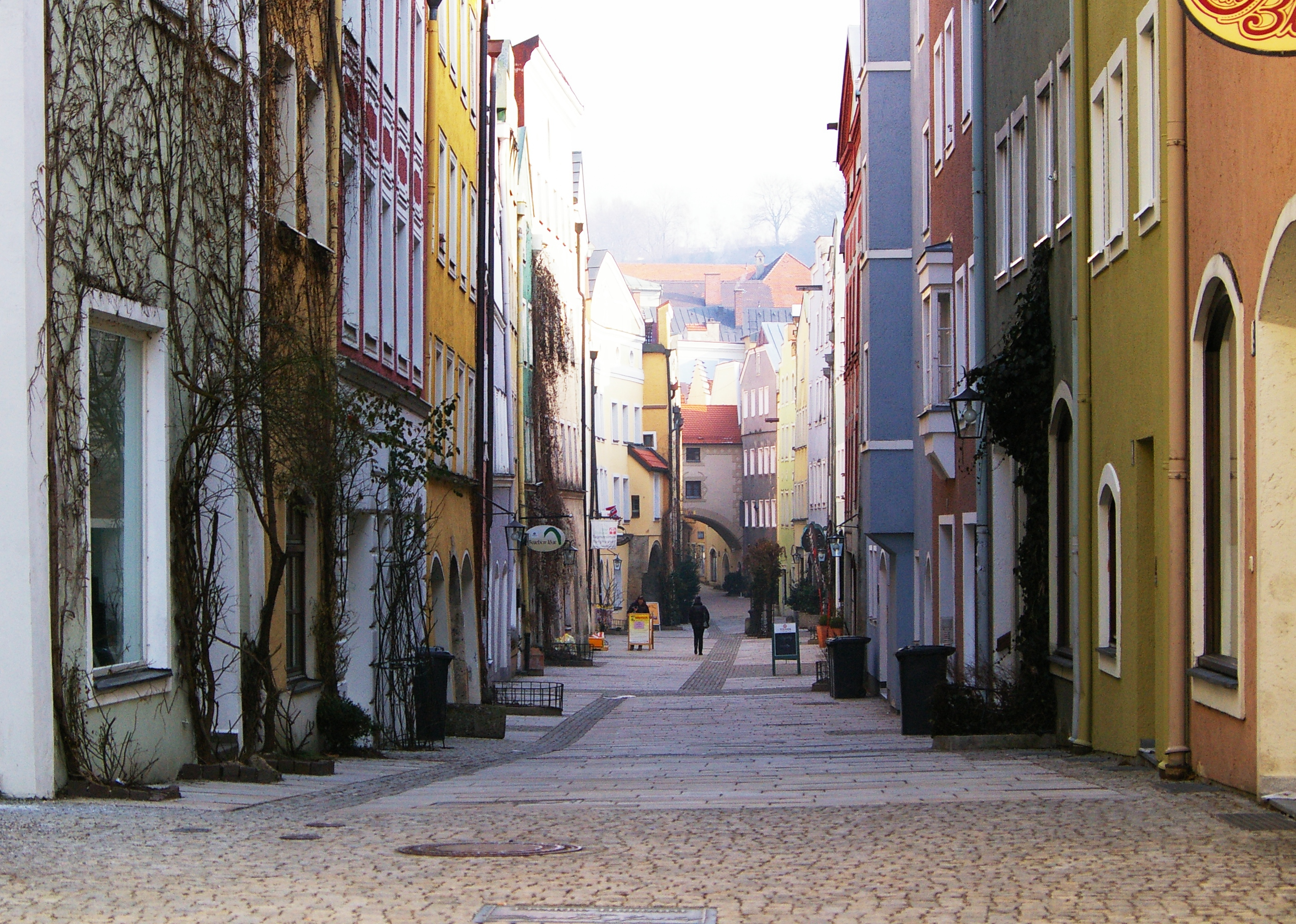 Burghausen Bavaria